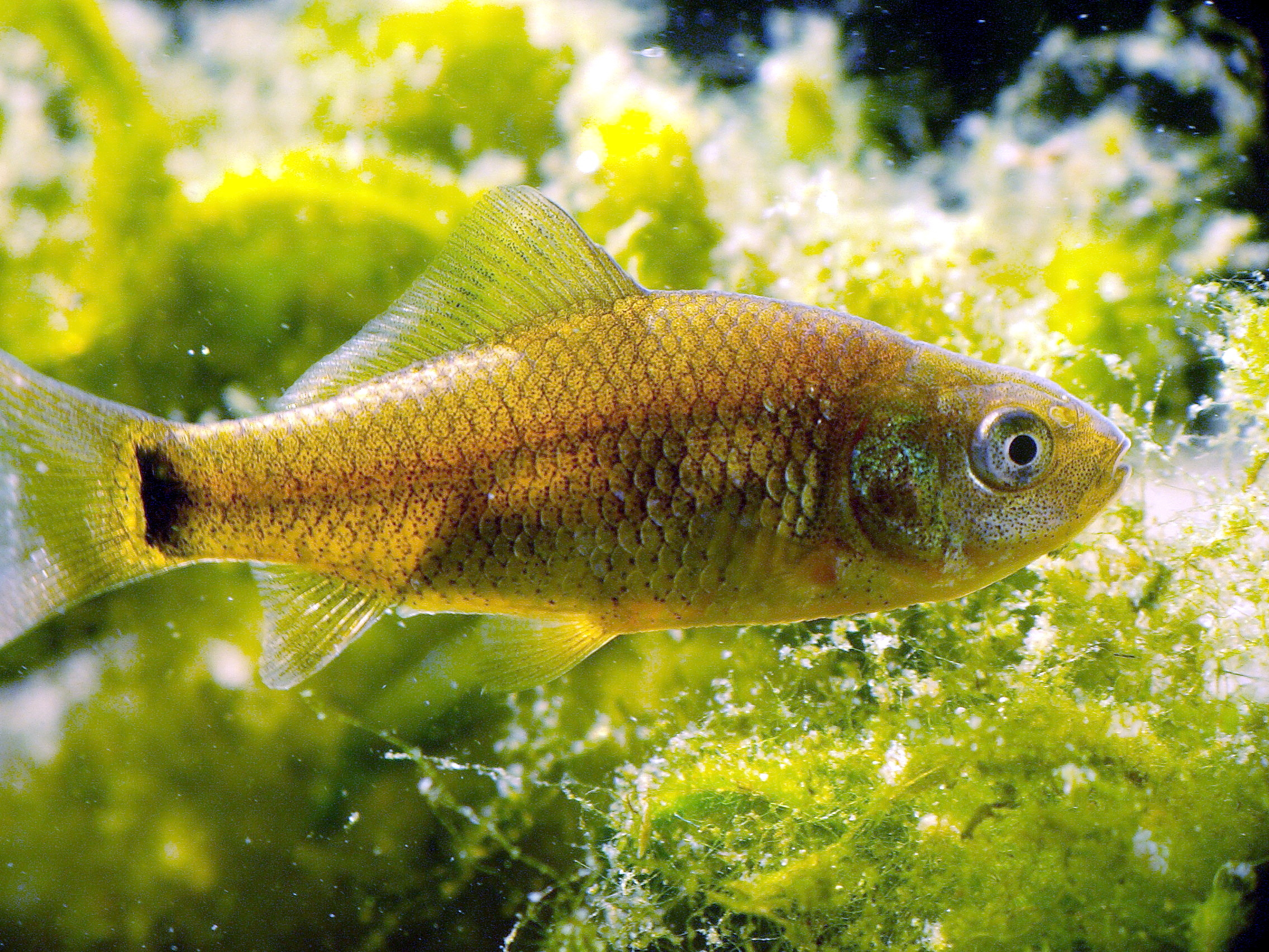 Juvenile Crucian carp (Carassius carassius) ca 25mm from a pool near the Nederrijn, The Netherlands